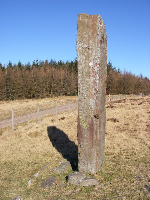 Maen Madoc in the sunshine, 3 km from Ystradfellte, Powys, Great Britain. There are letters carved into this face of the stone but they were difficult to read as weathering and lichen growth take their toll. Sarn Helen Roman road runs past the stone.